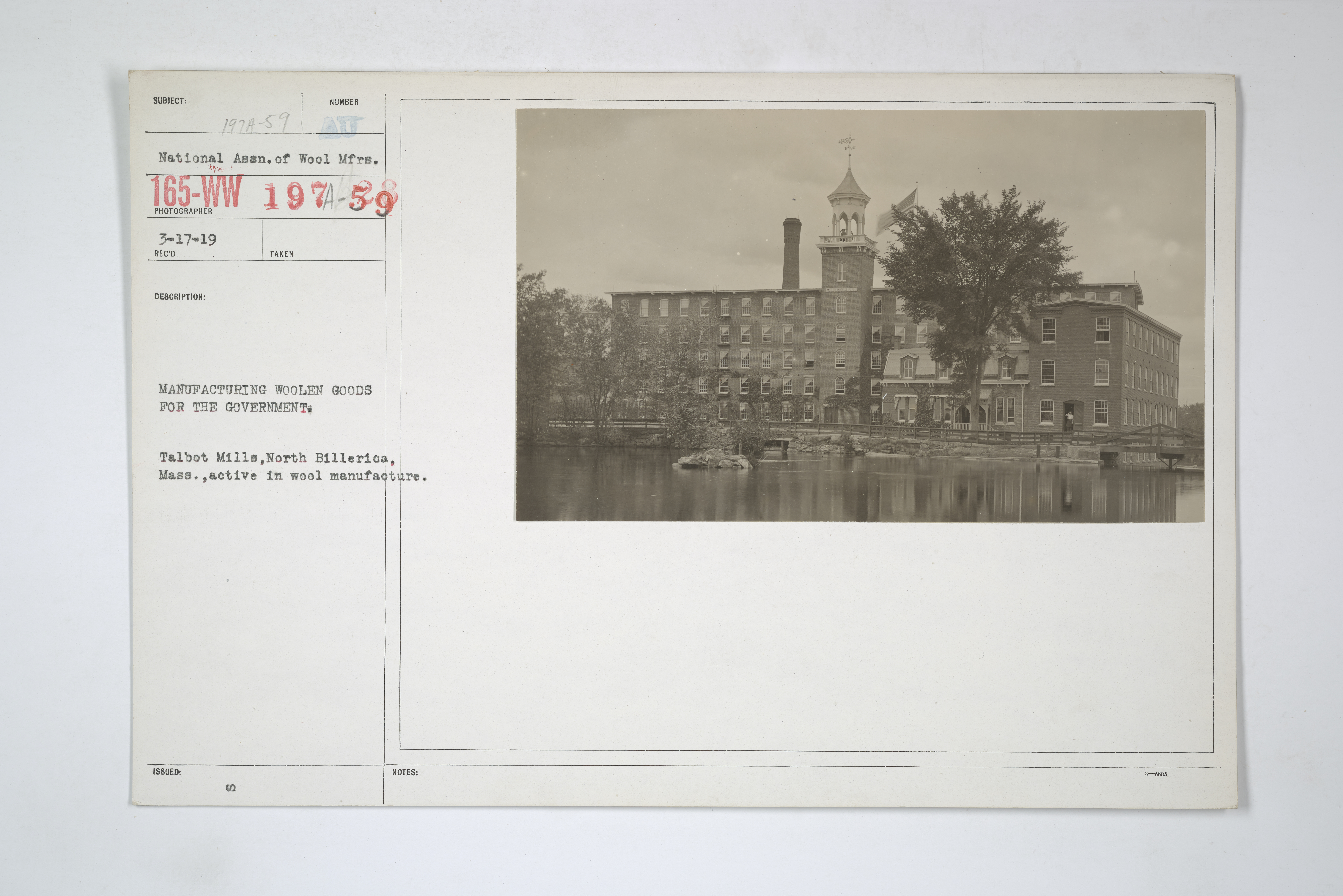 Scope and content: Photographer: National Assn. of Wool Mfrs.